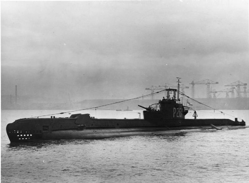 British S class submarine HMSM SLEUTH underway on the Mersey.